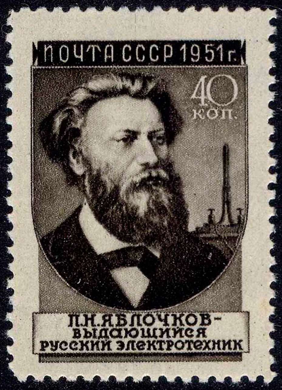 USSR stamp, P.N. Yablochkov, 1951, 40 k.